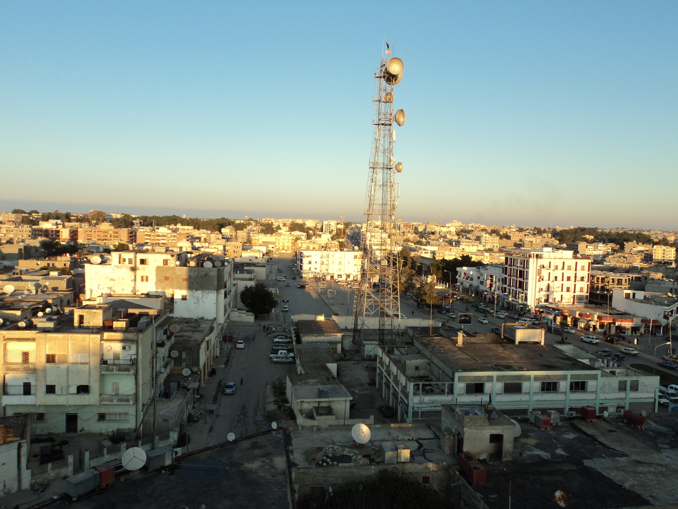 The center of Bayda - Libya.